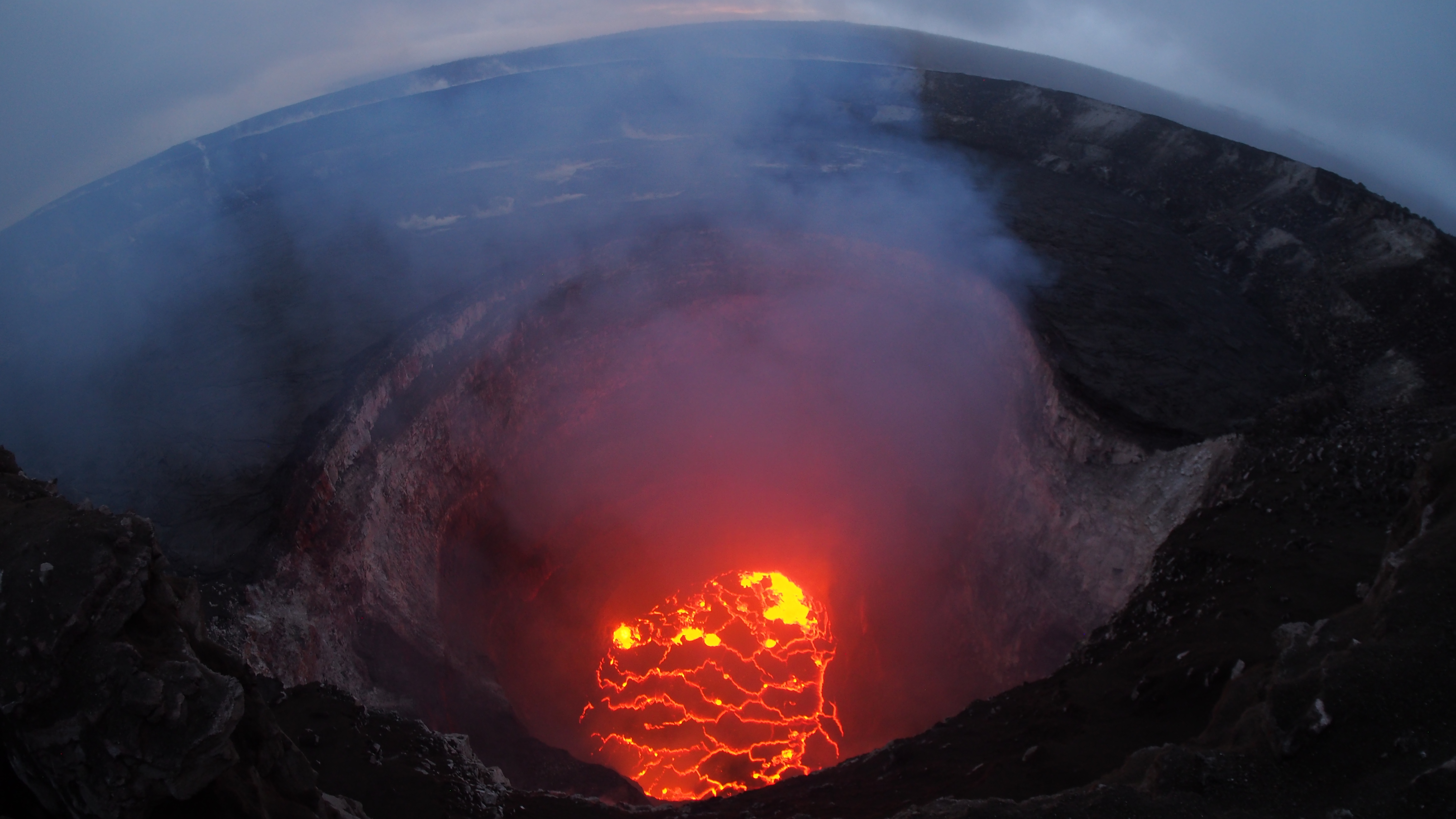 The summit of Kilauea lava lake in Hawaii has dropped significantly roughly 220 meters below the crater rim in this very wide angle camera view capturing the entire north portion of the Overlook crater, May 6, 2018.